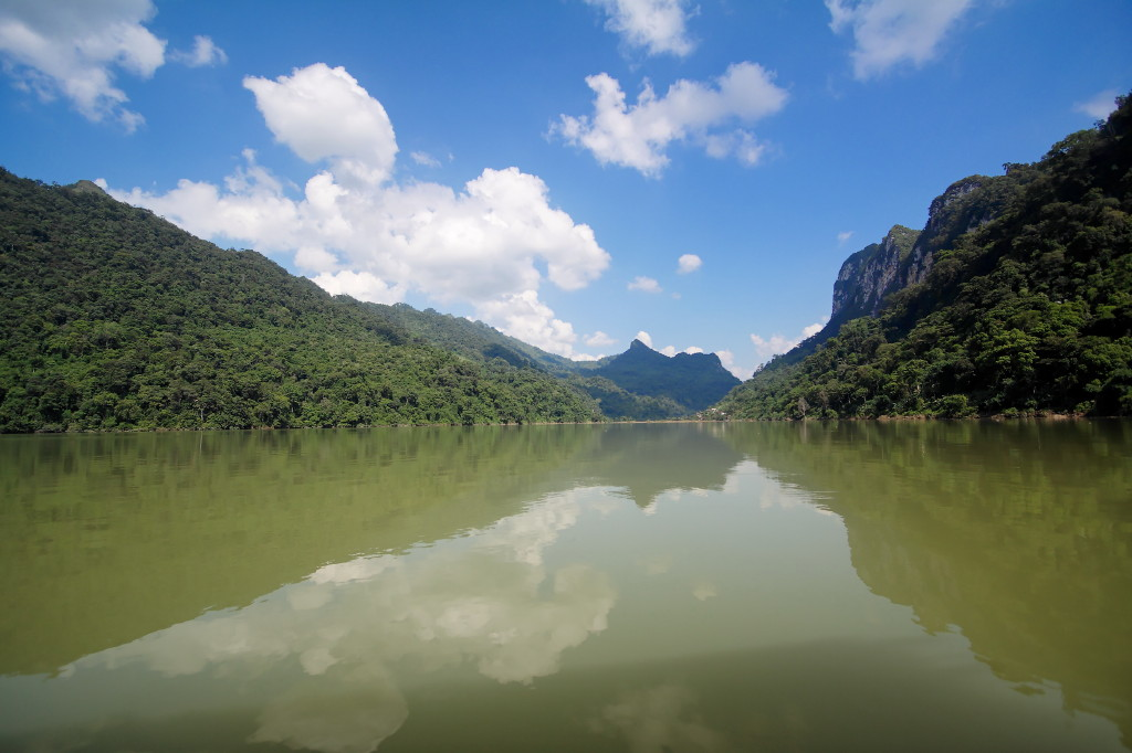 Ba Bê lake, part of Ba Bê National Park located in the Bắc Kạn Province of Vietnam.